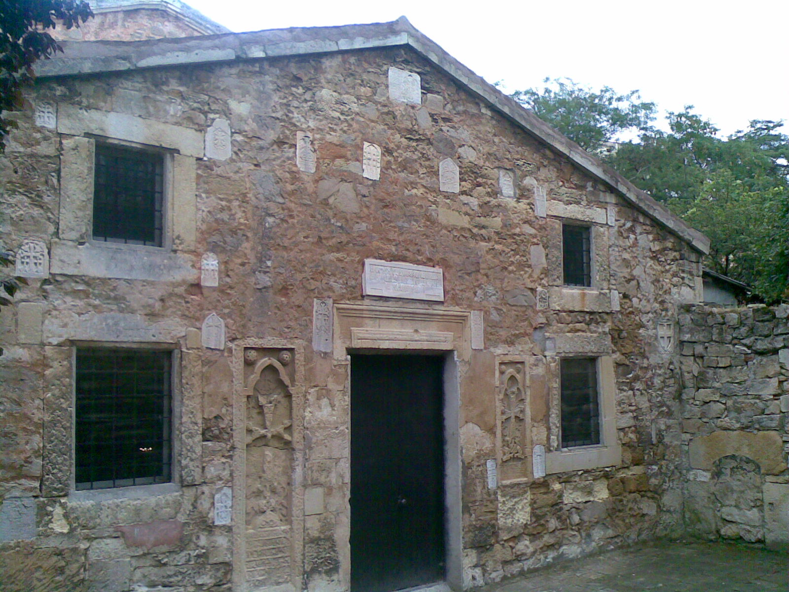 Feodosia_Armenian_church01